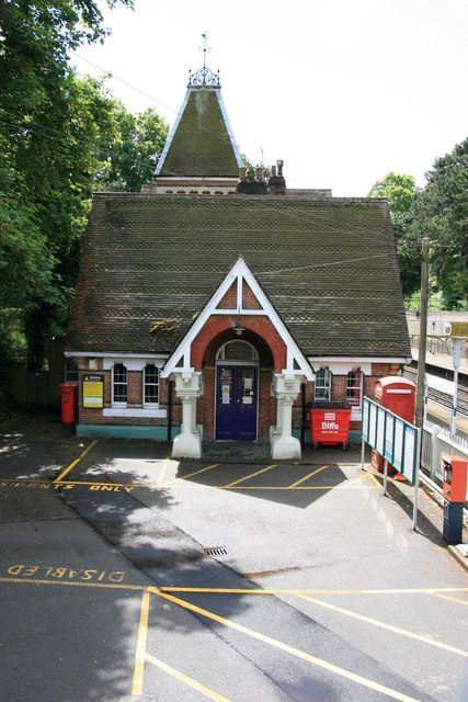 Box Hill and Westhumble station Viewed from the top of the steps leading down from Westhumble Street.